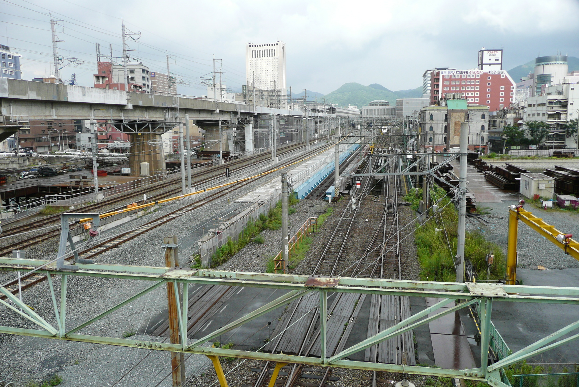 Murasakigawa Interlocking,Kagoshima Main Line,Kyushu Railway.